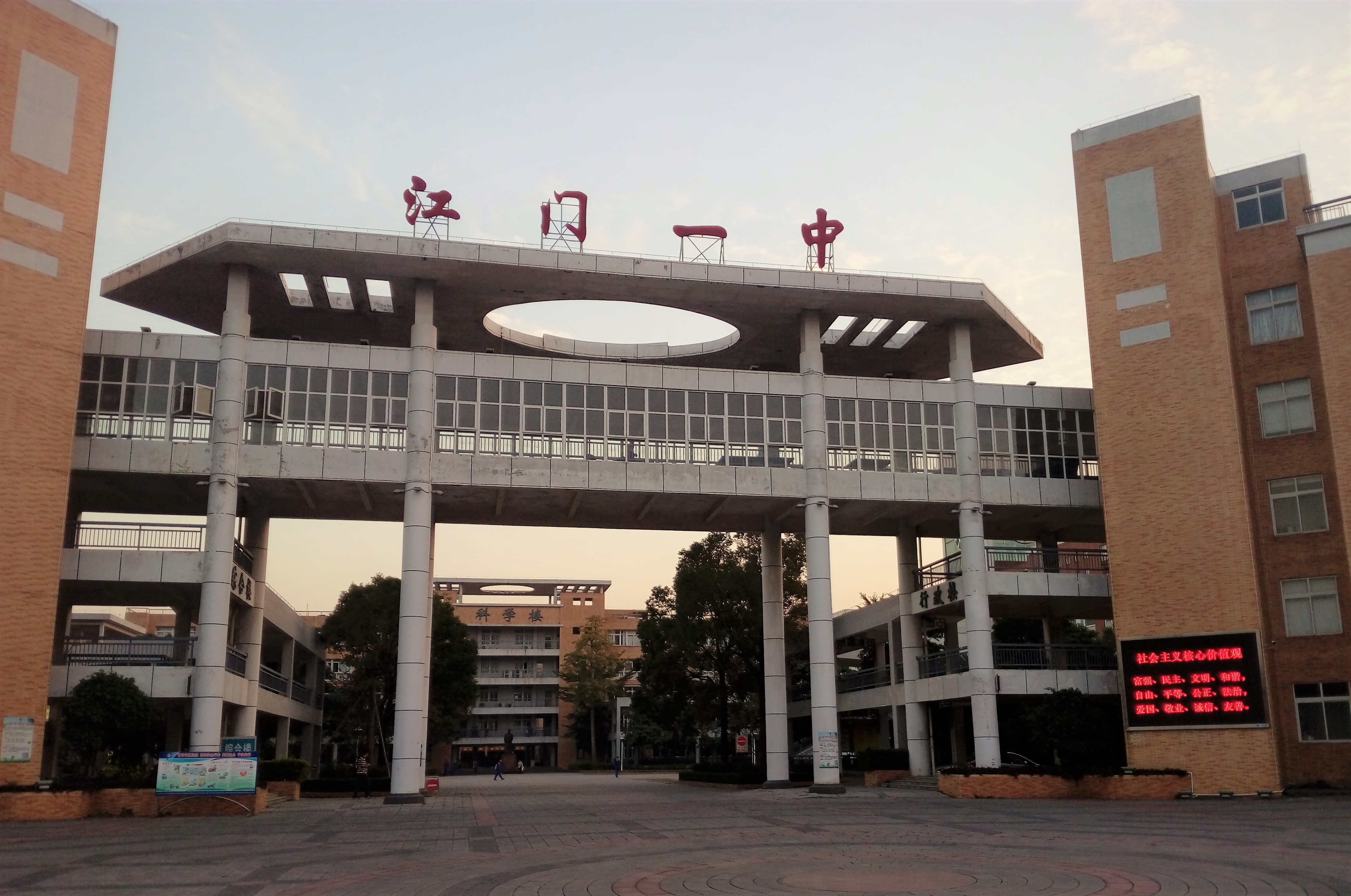 A corridor connecting the Art Building and the Administrative Building is close to the school gate.